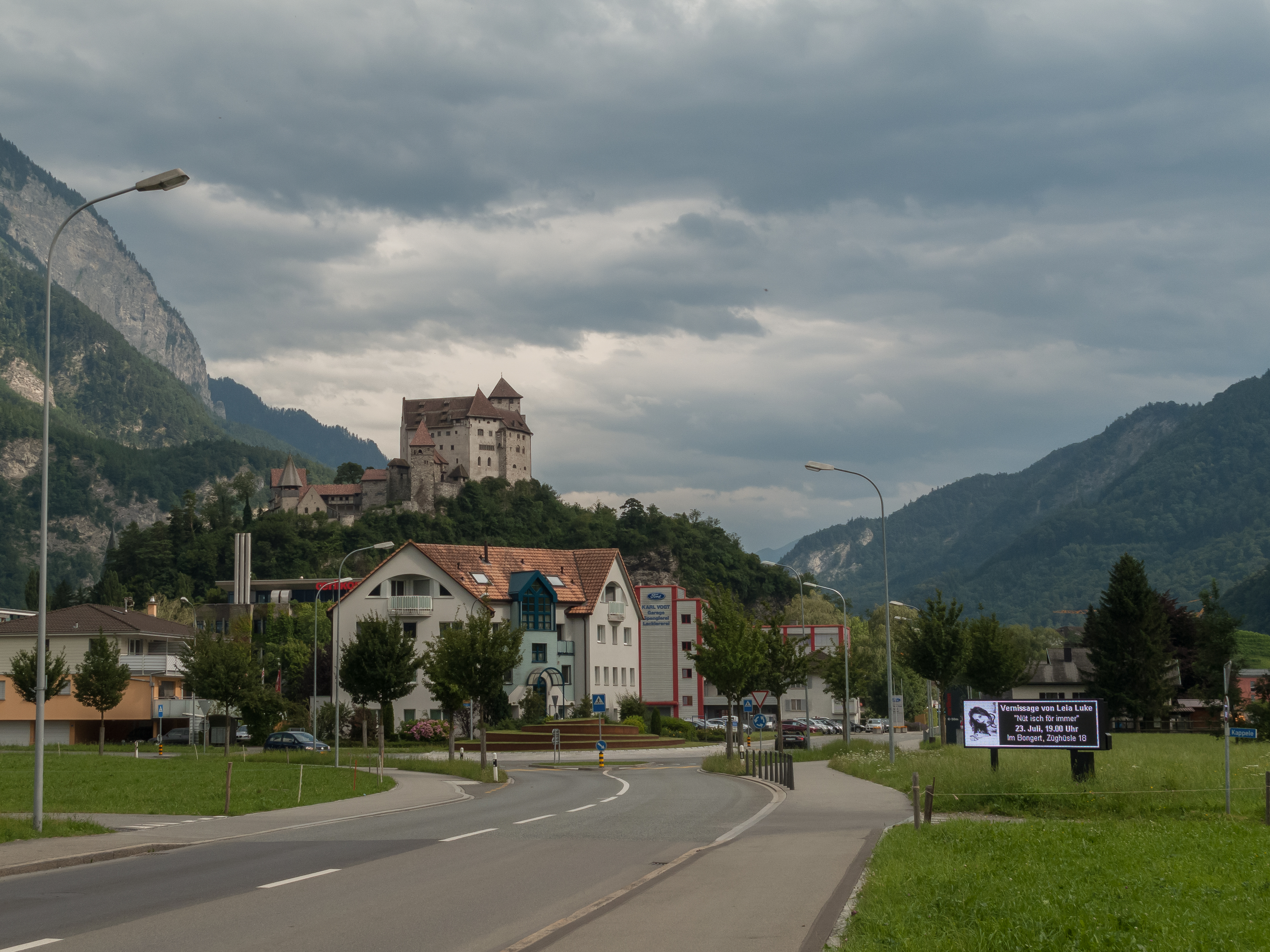 Balzers, town entry from Trubbach